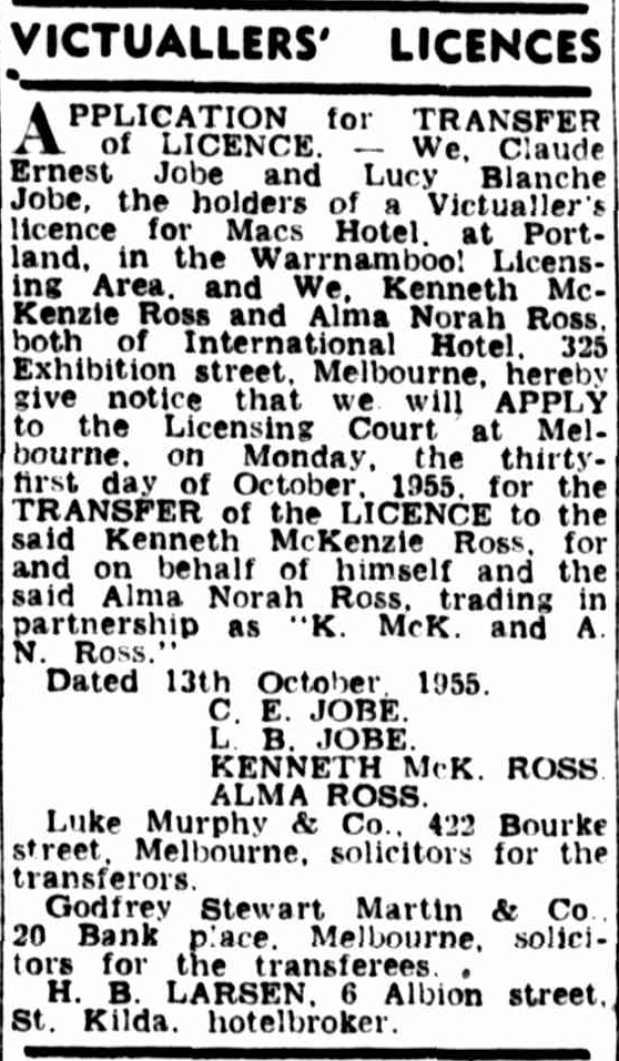 Formal Notice of the impending transfer of the Licence of Mac's Hotel, Bentinck Street, Portland to Keneth McKenzie Ross and Alma Nora Ross